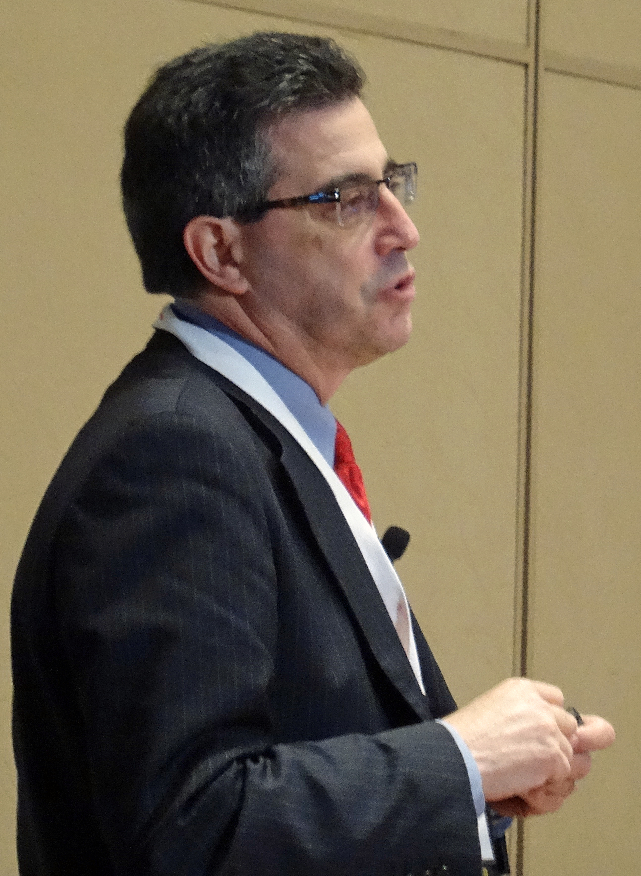 Howard C. Bauchner, vice chairman of pediatrics at the Boston University School of Medicine and editor-in-chief of the Journal of the American Medical Association.